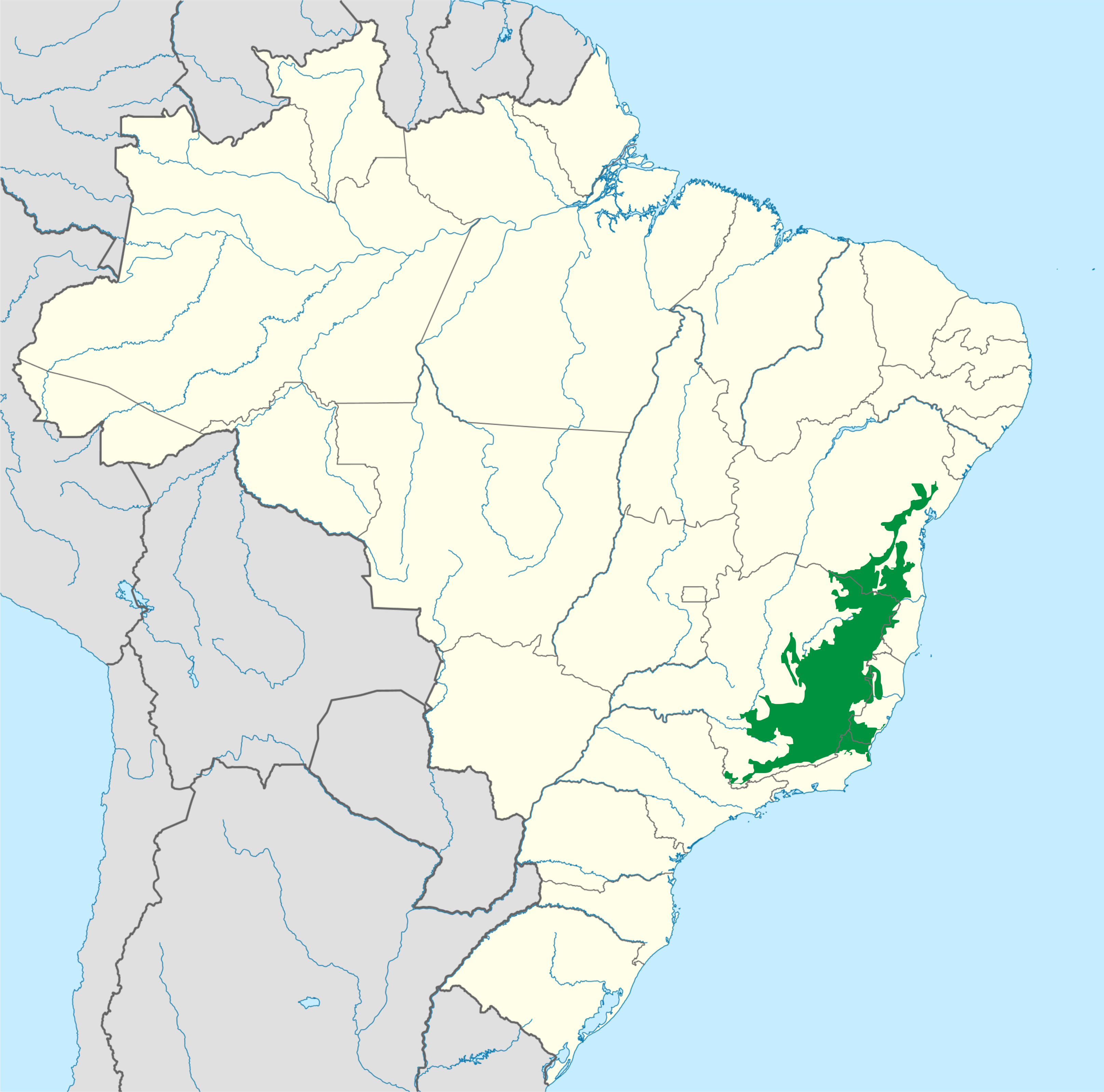 Approximate area of the Bahia interior forests ecoregion — of the Atlantic Forest biome. As delineated by WWF.